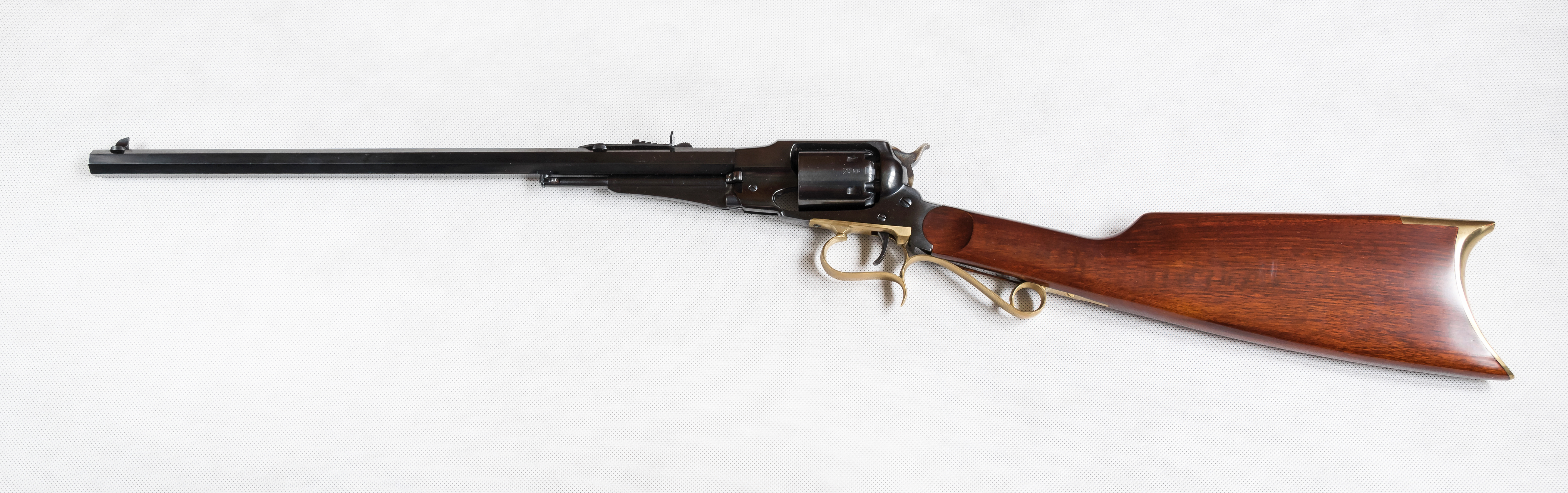 Uberti Remington 1858 New Army Target Carbine .44